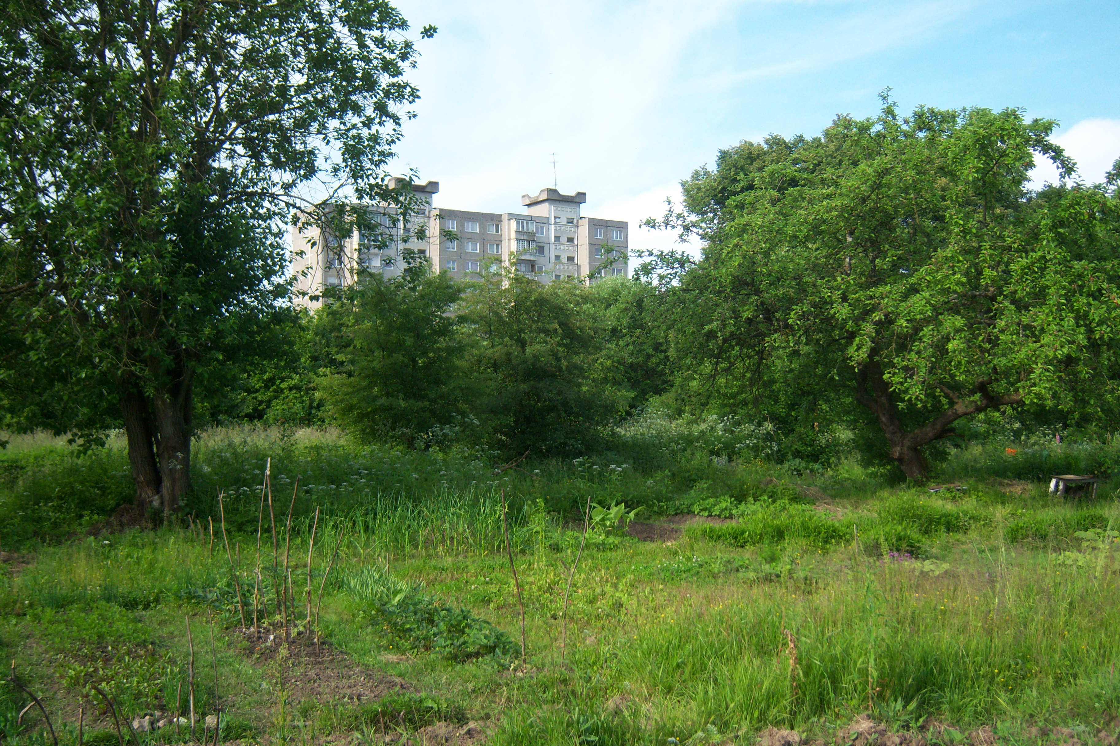 Park of the former Sargėnai manor, Kaunas. Lithuania